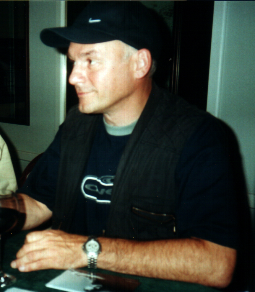 German actor and dubbing actor Erich Räuker at a dubbing convention in Mannheim, Germany